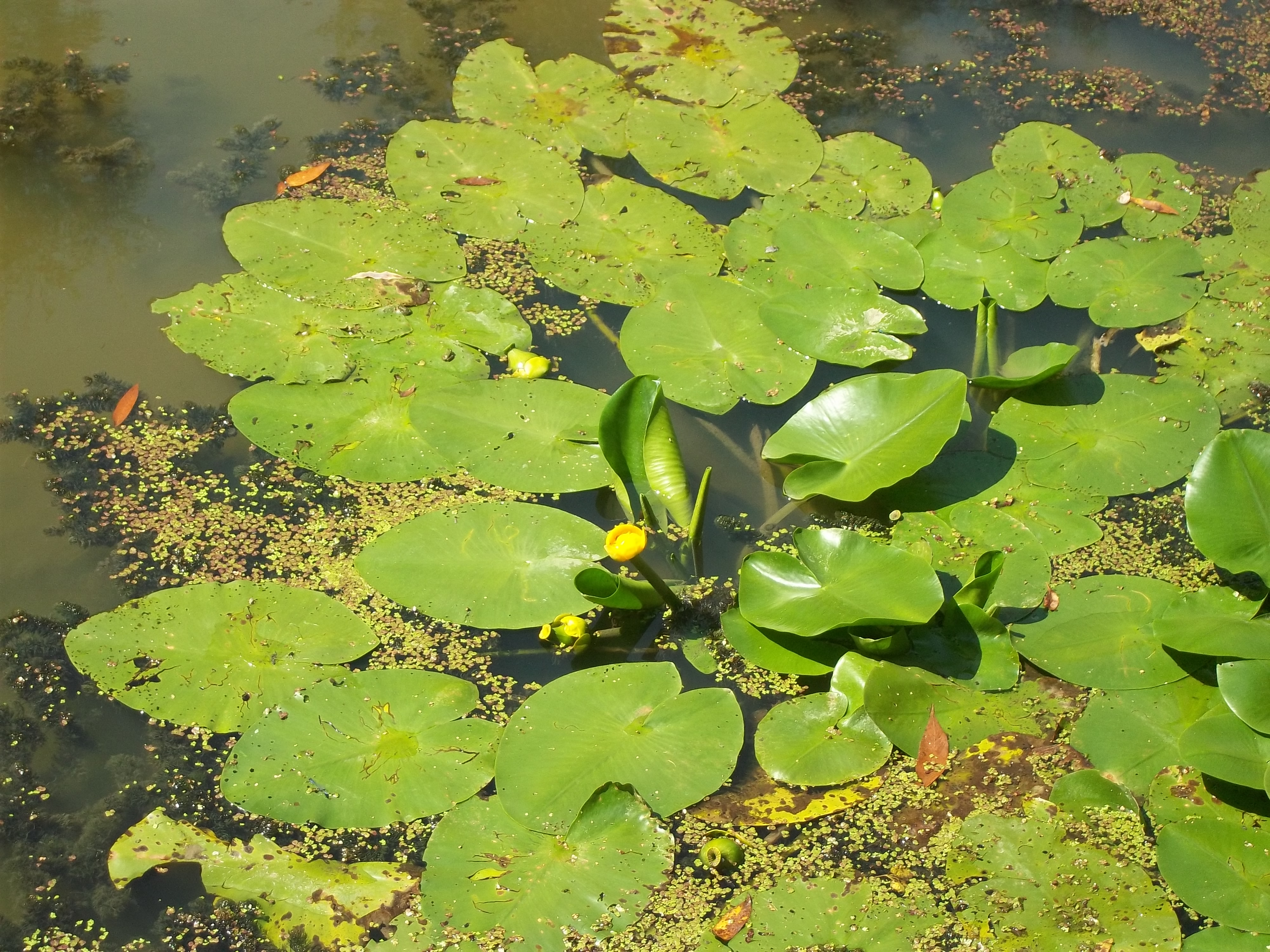 Nuphar lutea in nature reserve Koutské a Zábřežské louky in Opava District, Czech Republic